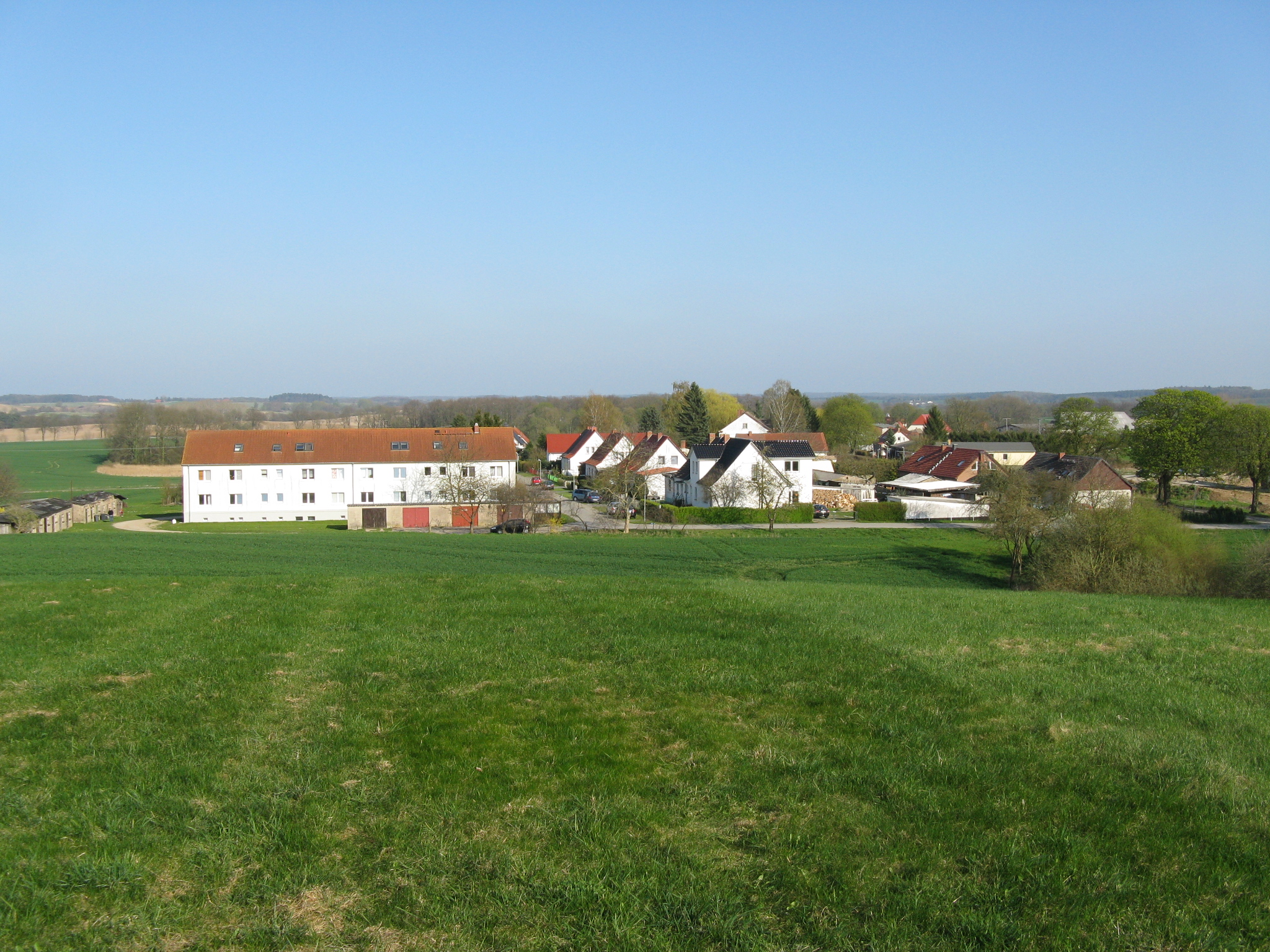 View at village Groß Grabow, district Güstrow, Mecklenburg-Vorpommern, Germany; taken from hill Schiefer Berg